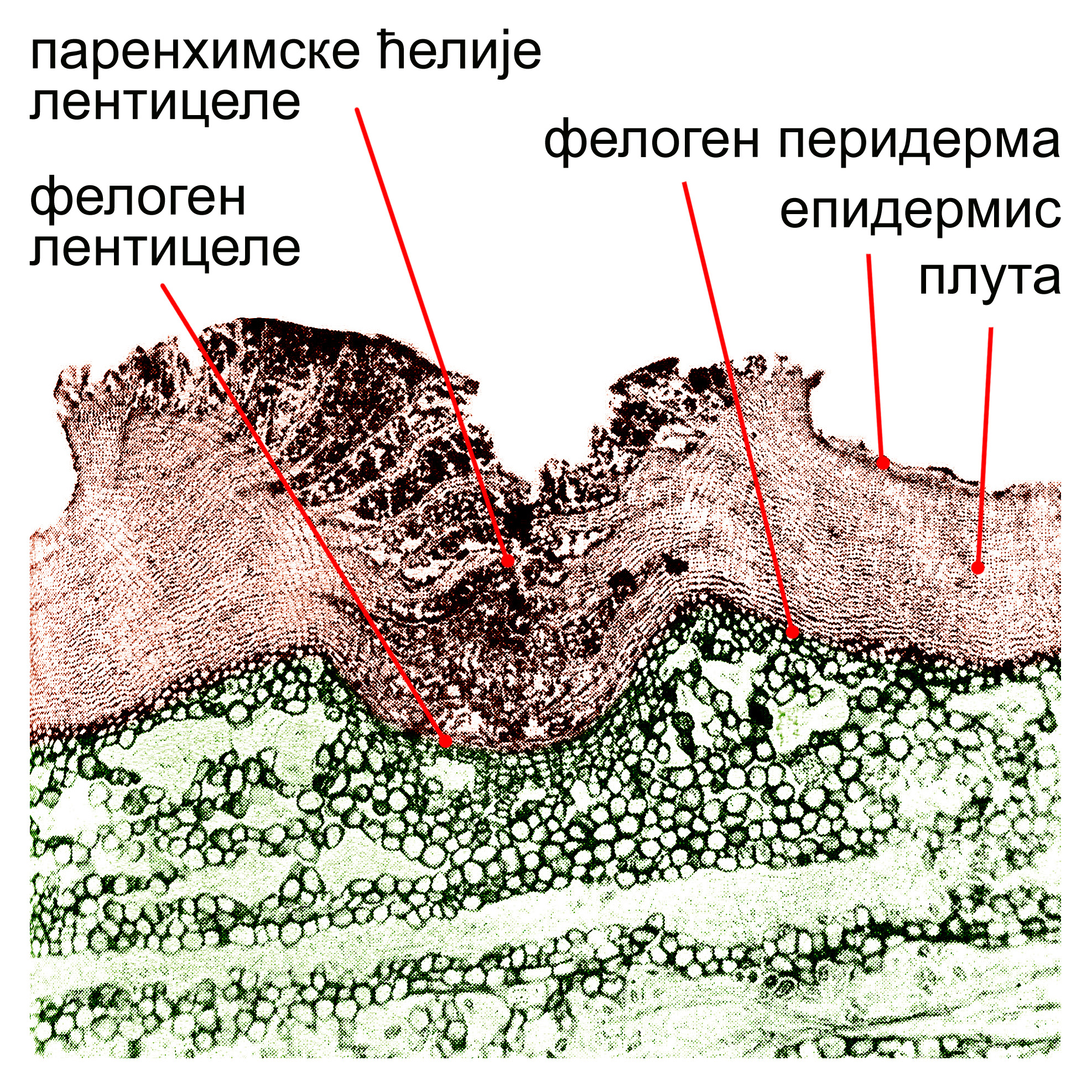 Longitudinal section through a lenticel of Prunus serulata (in Serbian)